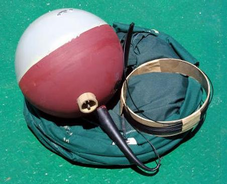 This is a picture of the drifters used in the GDP (photo by GDP).